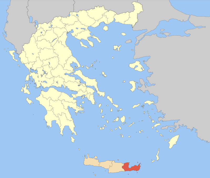 Locator map of Lasithi prefecture (Νομός Λασιθίου) in Greece